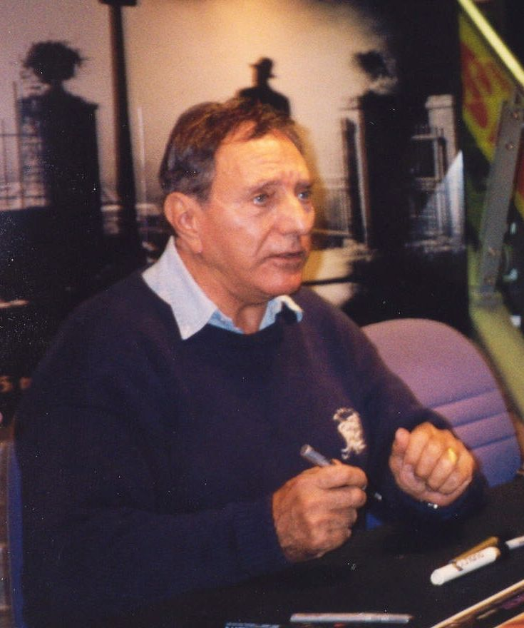 William Peter Blatty (author of The Exorcist) at a book signing.